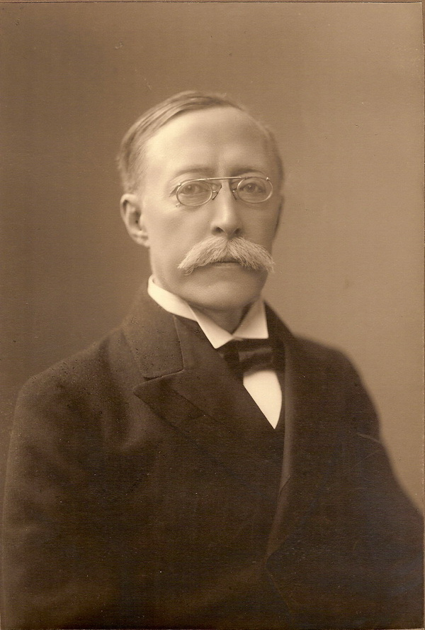 Axel Kock (1951-1935), Swedish professor of North Germanic languages at Lund University.